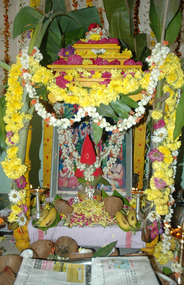 House shrine to Vishnu garlanded with flowers. Coconuts have been placed in front and an oil lamp lit in a puja. Banana leaves are placed at the back.